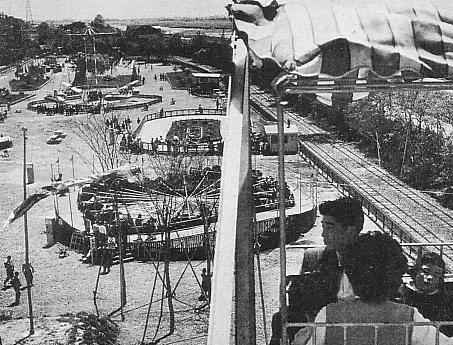 Futako-Tamagawa Park in 1950s